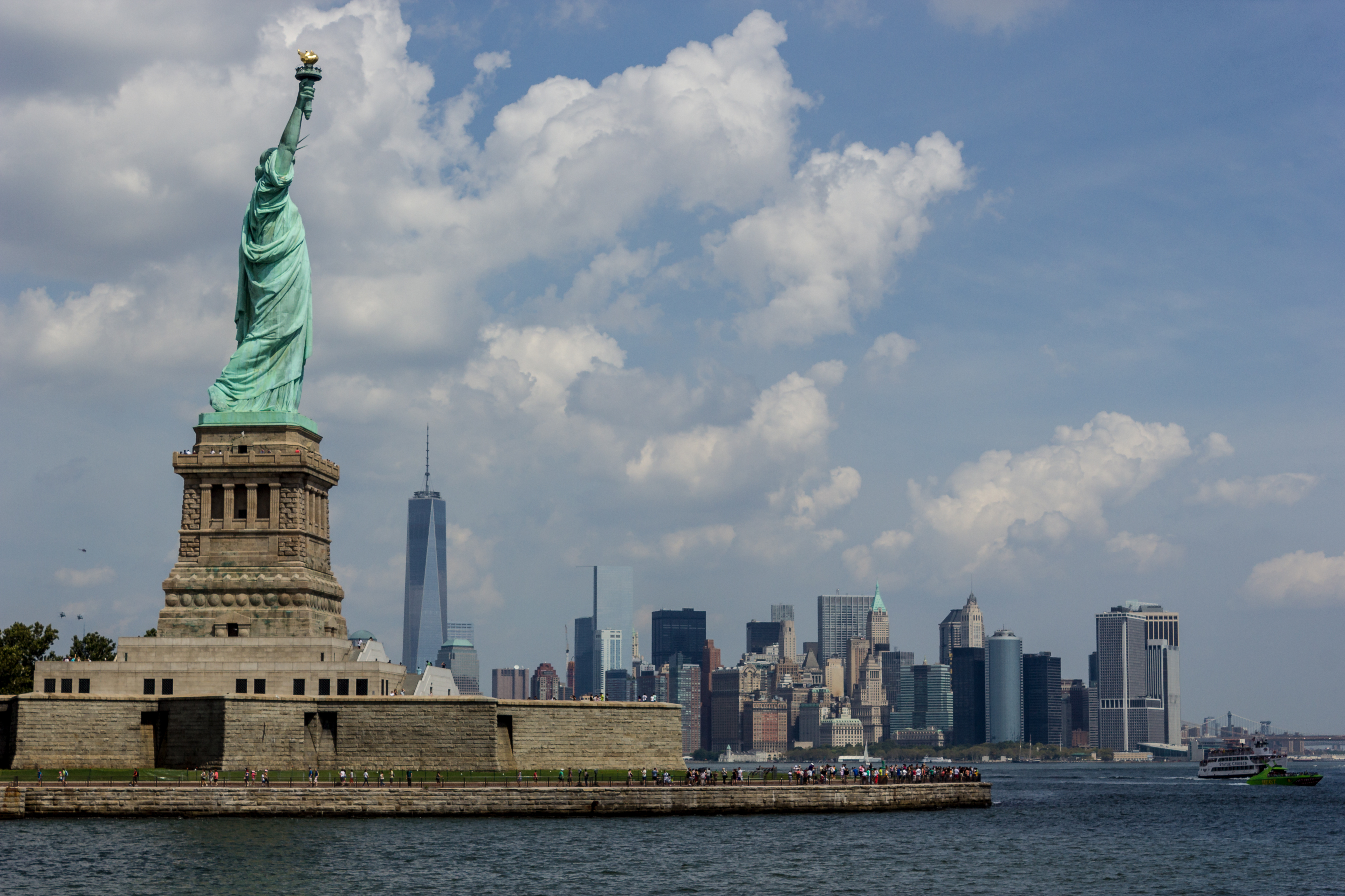 The Statue of Liberty with the One World Trade Center and Lower Manhattan Skyline in the background.